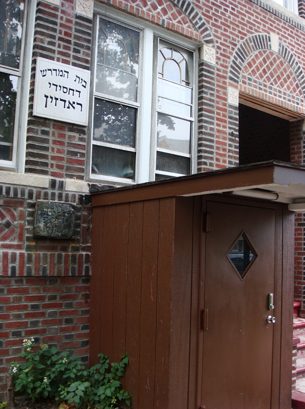 The Radziner Shteibel in Boro Park